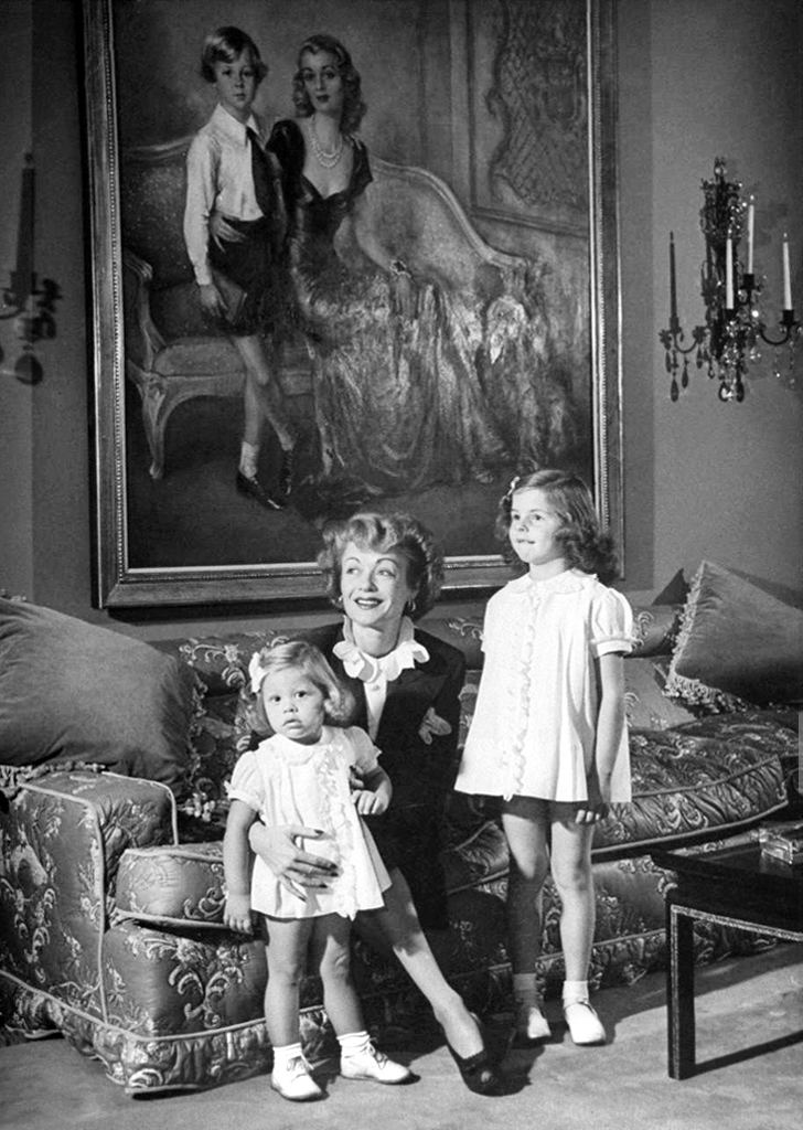 Photograph of Constance Bennett with her two daughters, Christina and Lorinda Roland